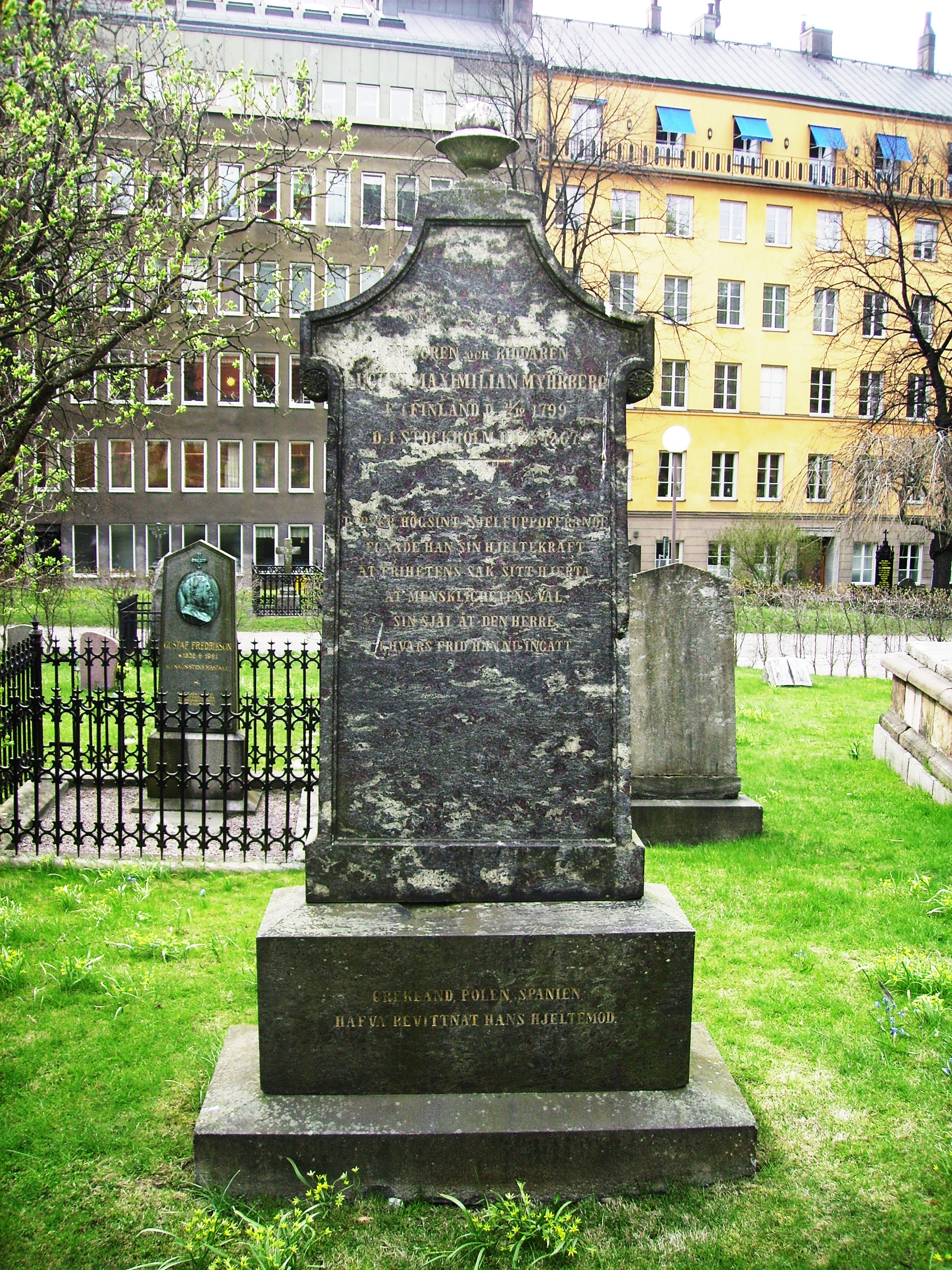 Picture of August Myhrbergs grave, Johannes church, Stockholm